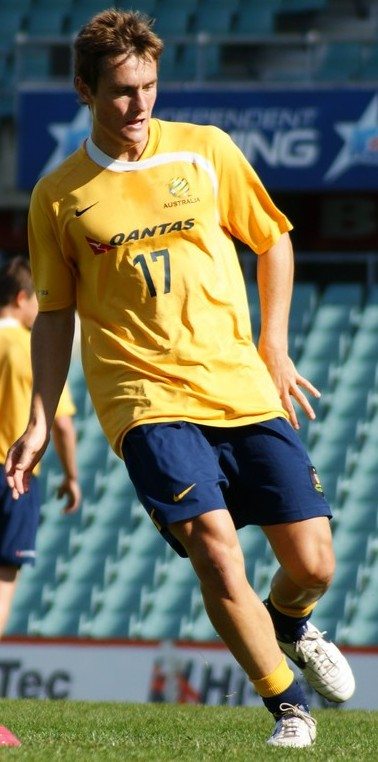 James Holland at Socceroos training